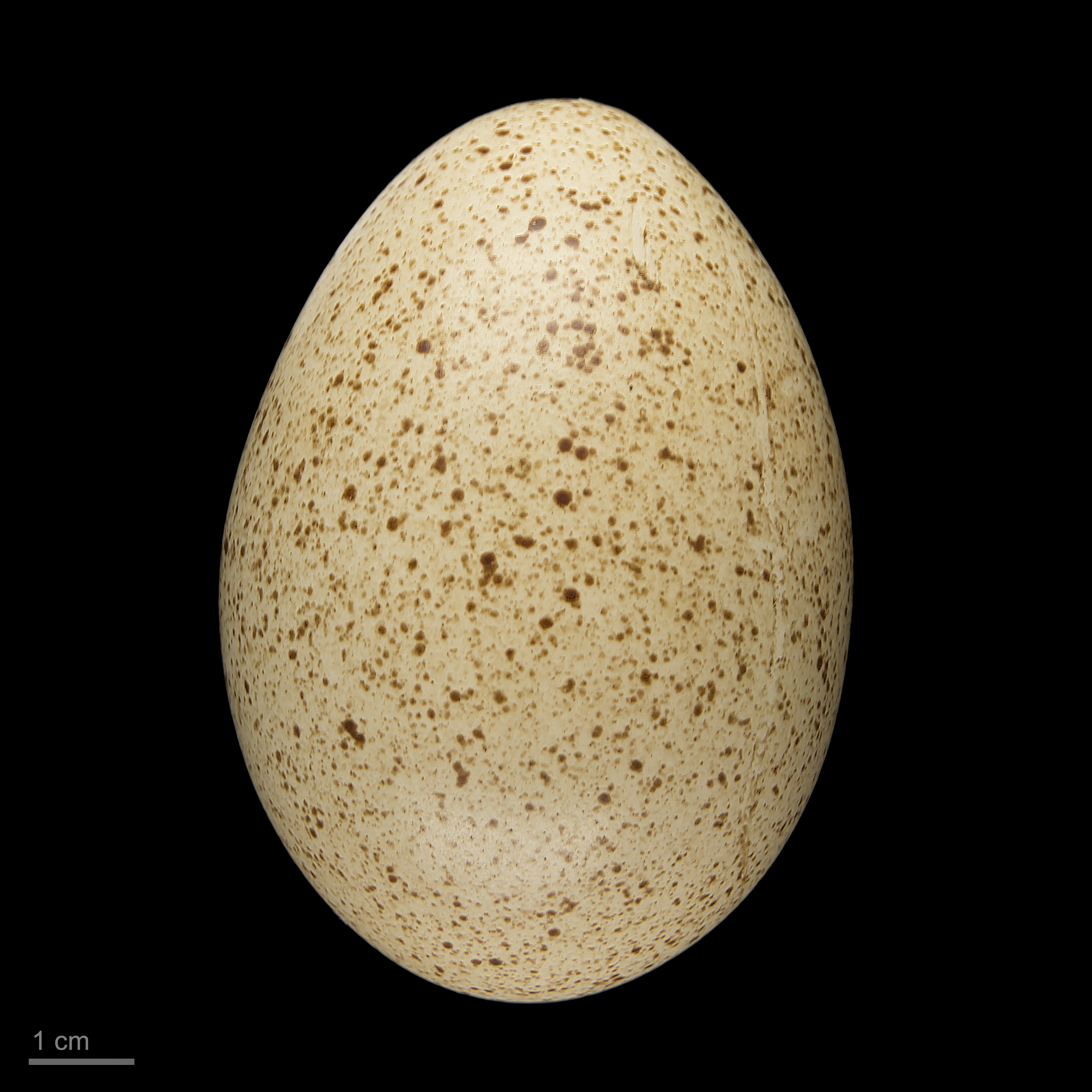 Egg of Caucasian snowcock Collection of Jacques Perrin de Brichambaut.